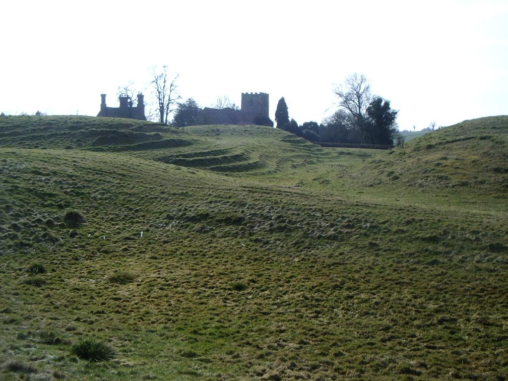 Castle and motte, Lilbourne View from field boundary of castle motte remains and Lilbourne church beyond.